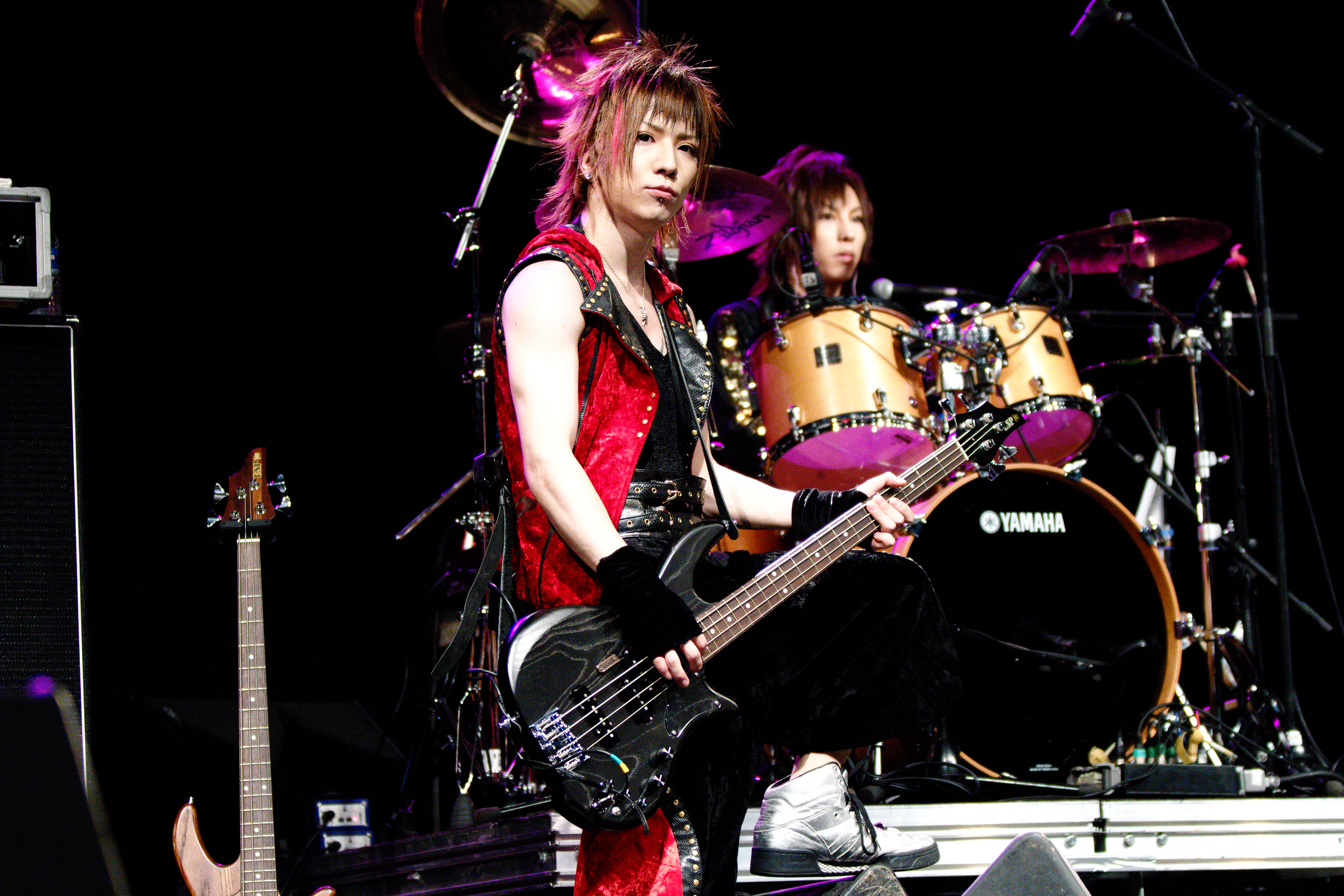 ViViD live at Japan Expo 2010 (Paris, France).